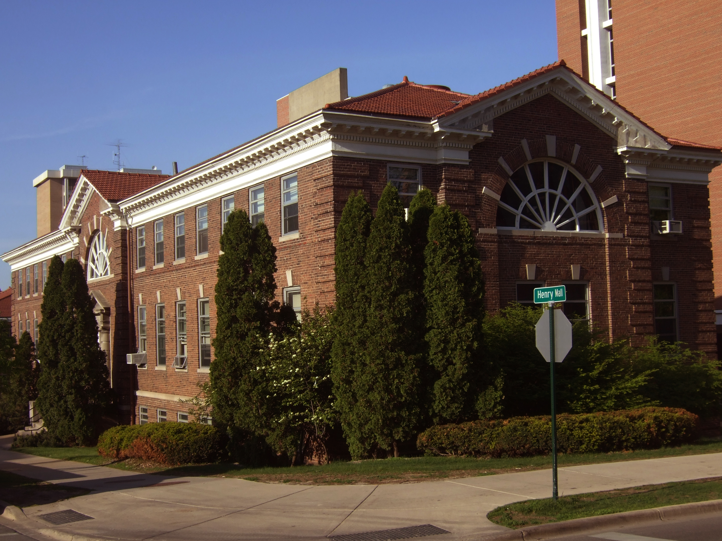 The Agricultural Engineering Hall of the University of Wisconsin-Madison at 460 Henry Mall was designed by Arthur Peabody in the Georgian Revival style. It was built in 1905 and added to the National Register of Historic Places in 1985.